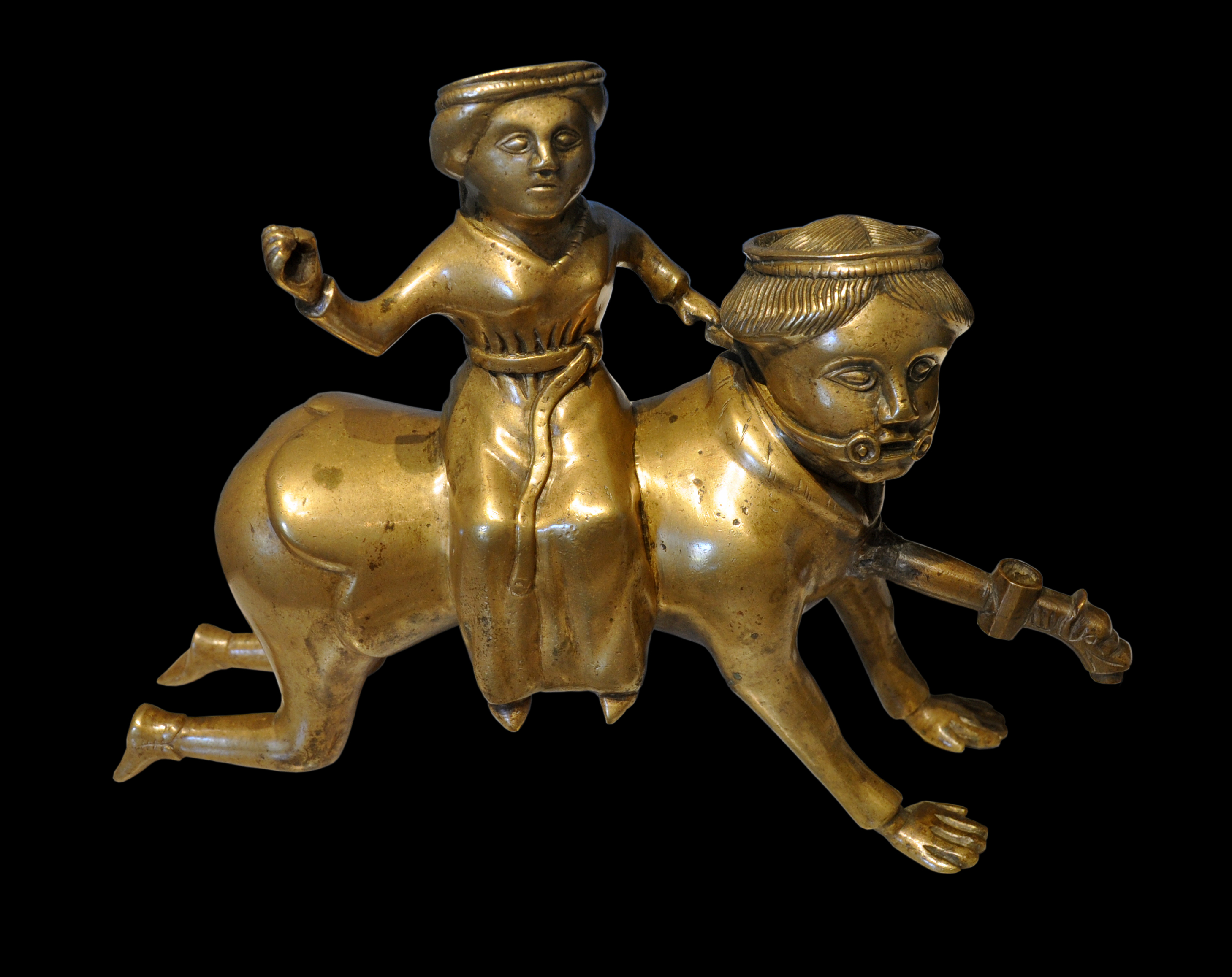 Aquamanile featuring Aristotle and Phyllis, brass, first half of the 15th century, Maasland (?). MRAH, Collection of European Decorative Arts, Jubilee Park, Brussels.